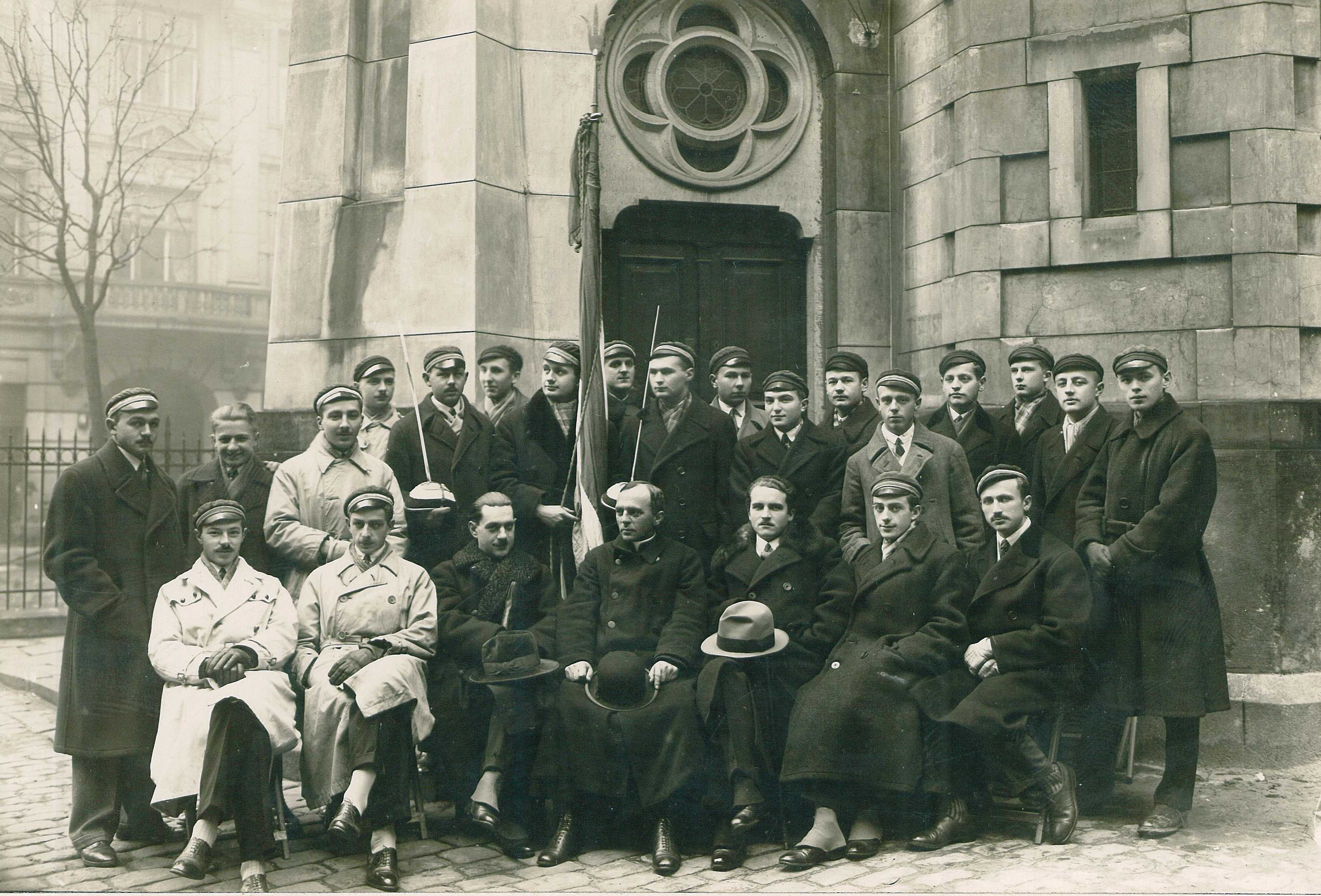 Corporation Sarmatia, Warsaw, Poland, 1928